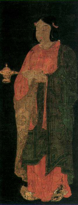 Shotoku Taishi, Shitennoji, Tsu, Mie, Japan